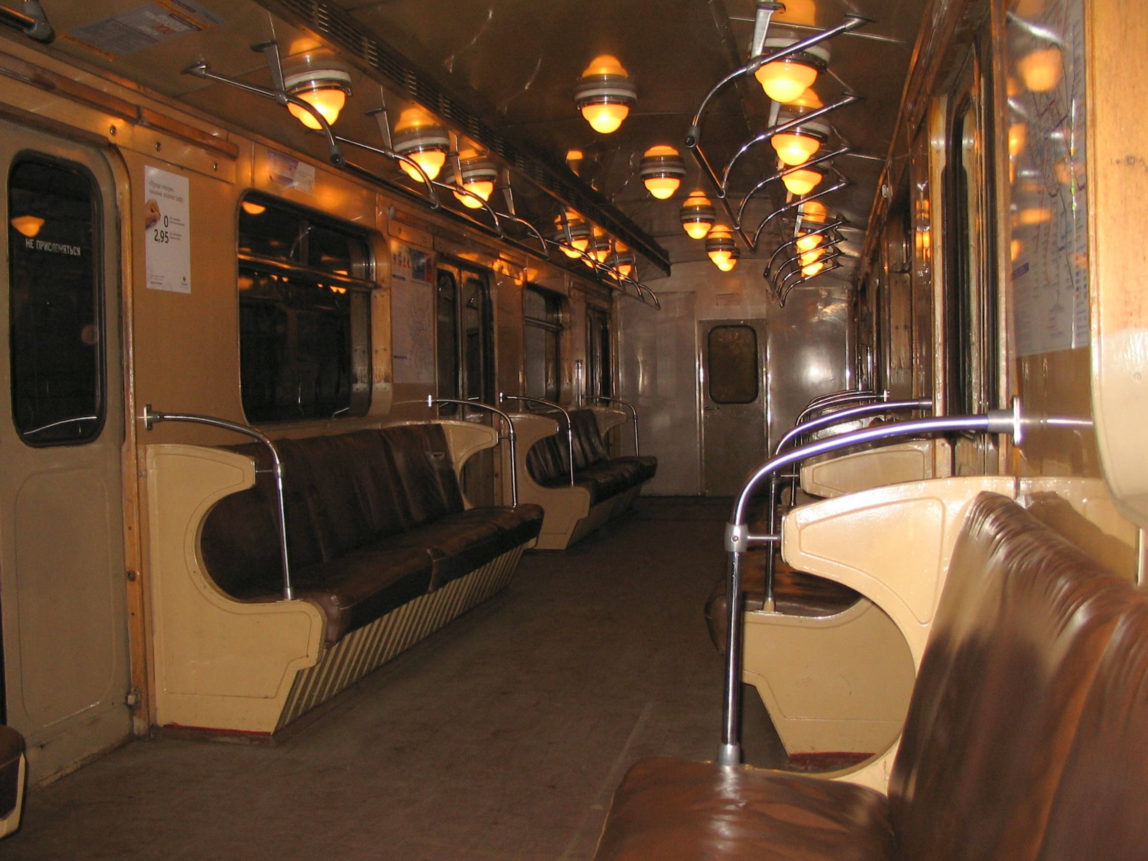 Moscow metro car of Arbatsko-Pokrovskaya line from inside